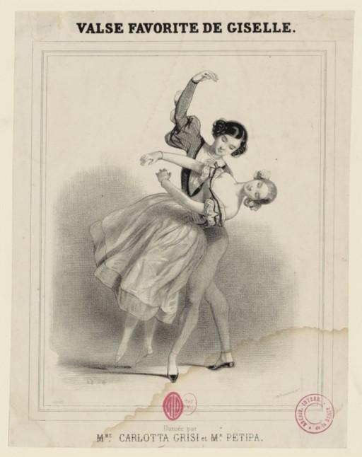 Giselle sheet music, 1841